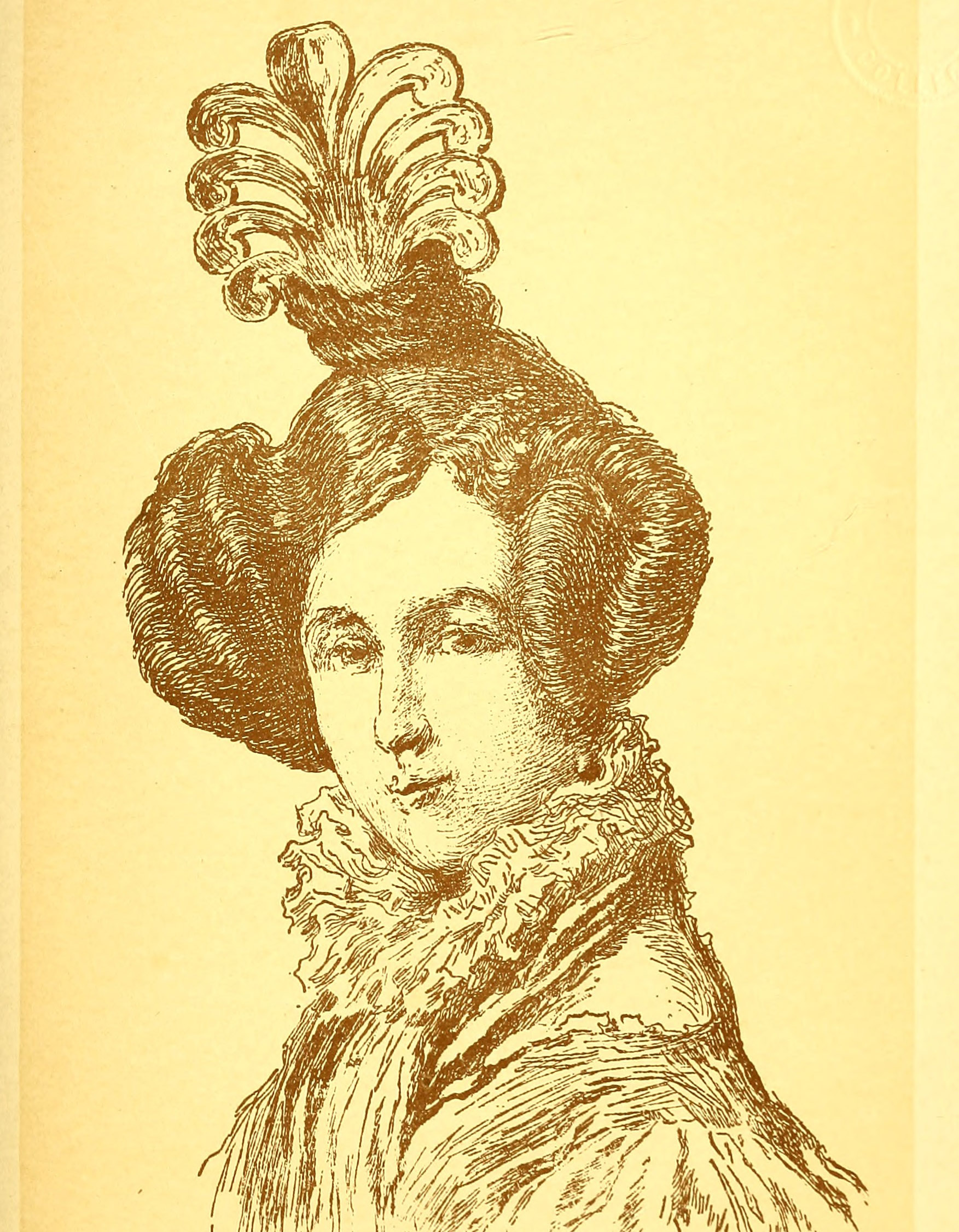 Margherita Barezzi-cropped